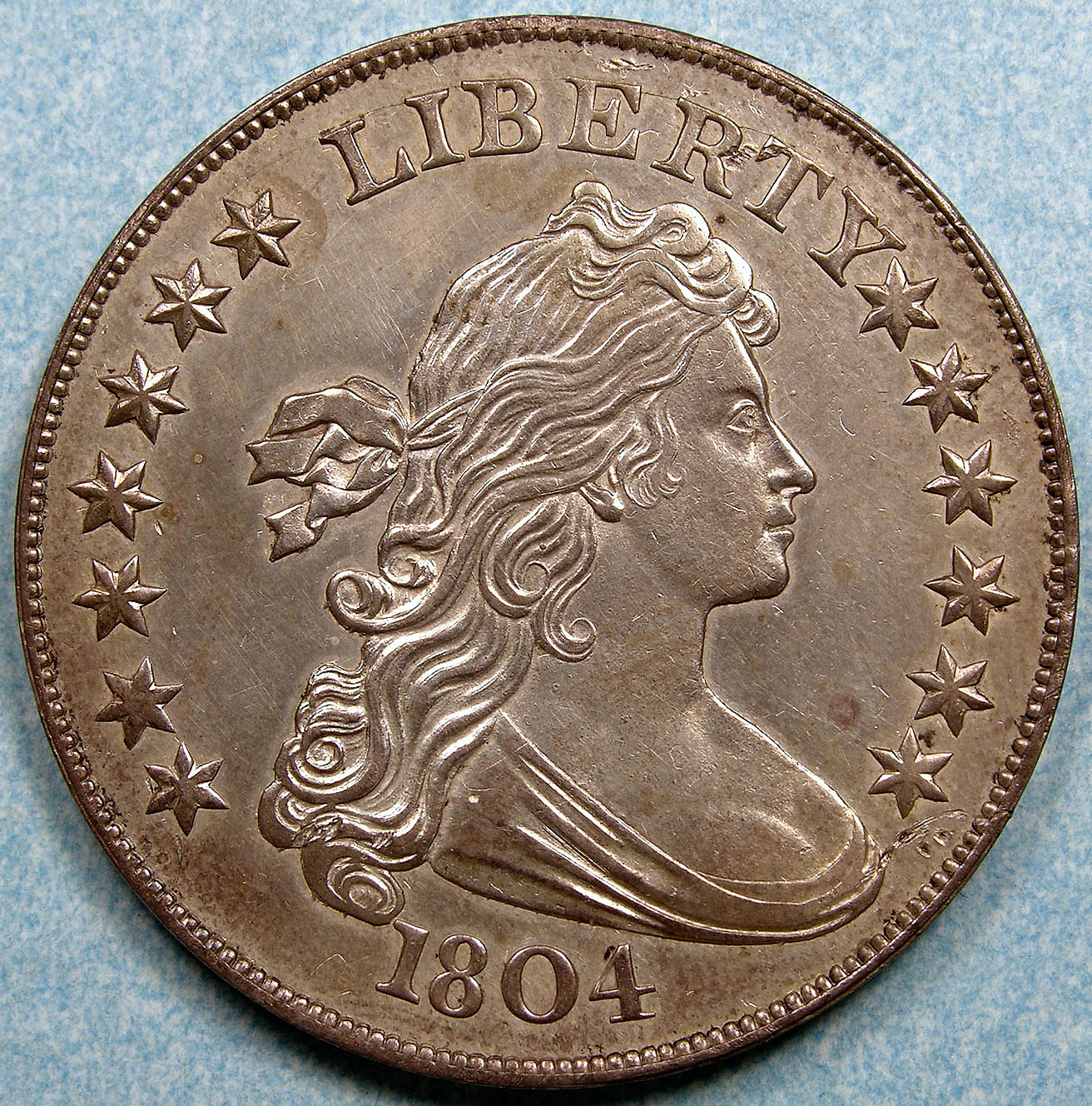 Obverse illustration of a Type I 1804 dollar